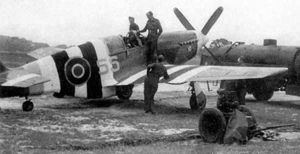 Photograph of Mustang III flown by Wing Commander Stanisław Skalski, Wingco of 133 (Polish) Wing.